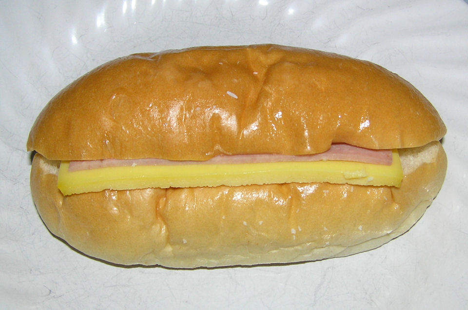 Chinese pastry Ham and Egg bun